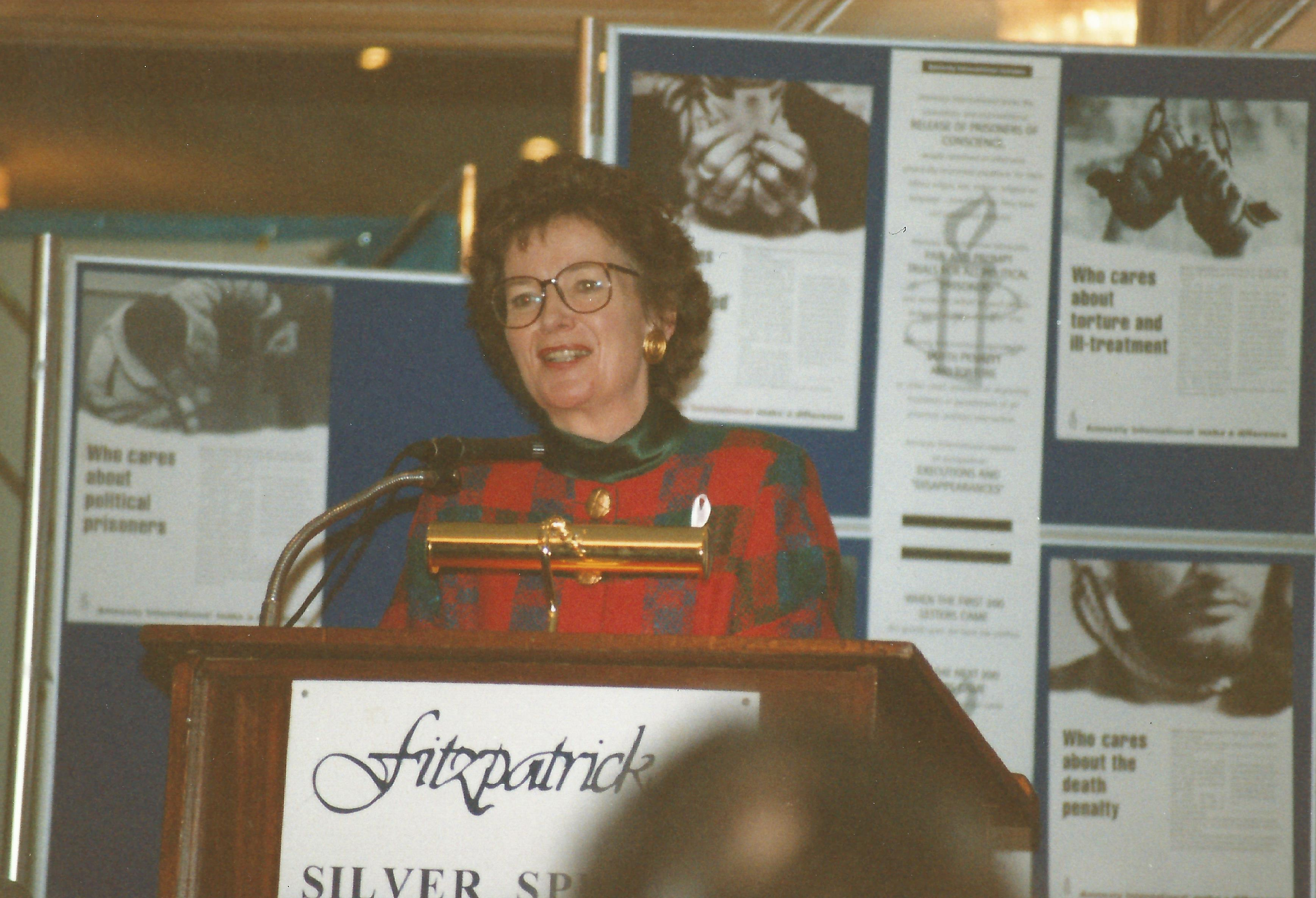 President of Ireland, Mary Robinson, at Amnesty International Ireland Conference, Silver Springs Hotel, Cork, County Cork, February 1996